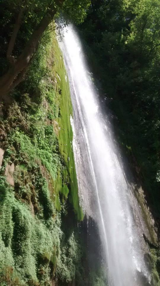 Tiger Falls or Keraoo Pachha, as known by the locals, is one of the highest waterfalls in India. It is also the second highest waterfall in Uttrakhand